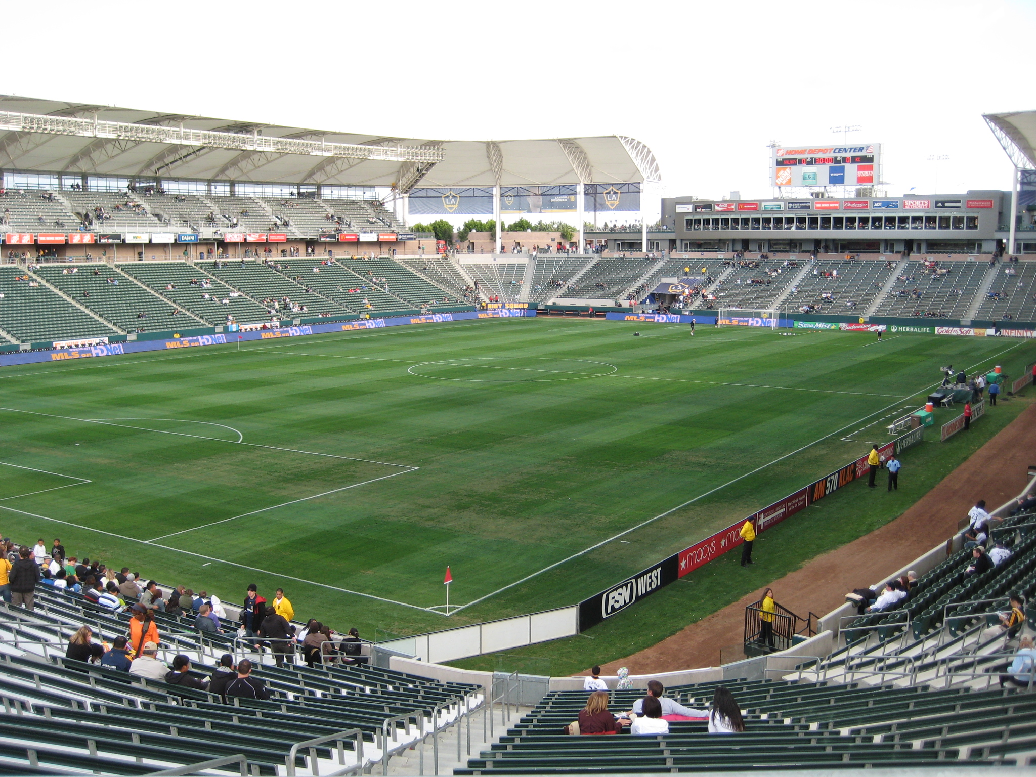 The pitch at the Home Depot Center